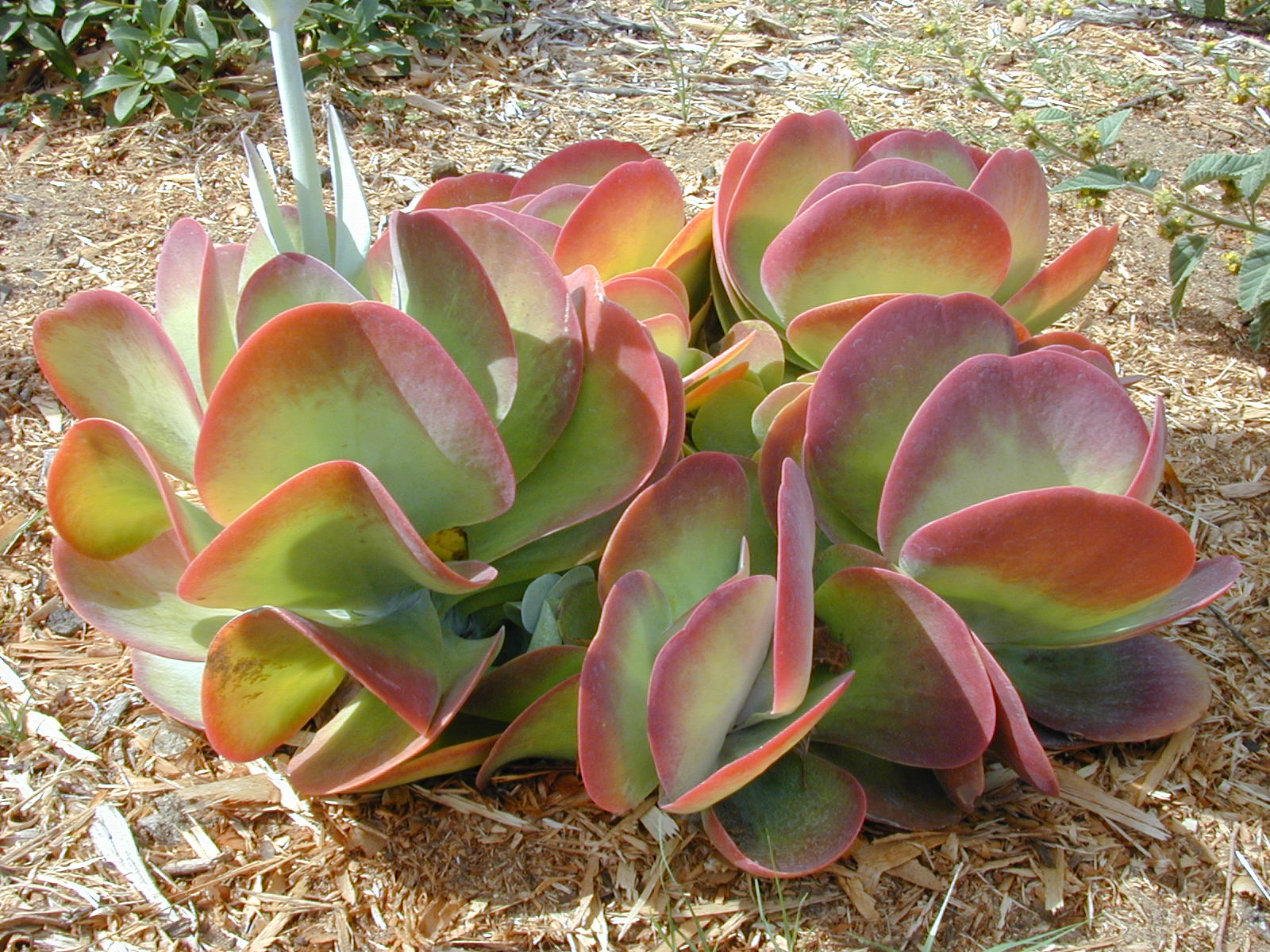 Kalanchoe thyrsiflora (habit). Location: Maui, Kalepolepo